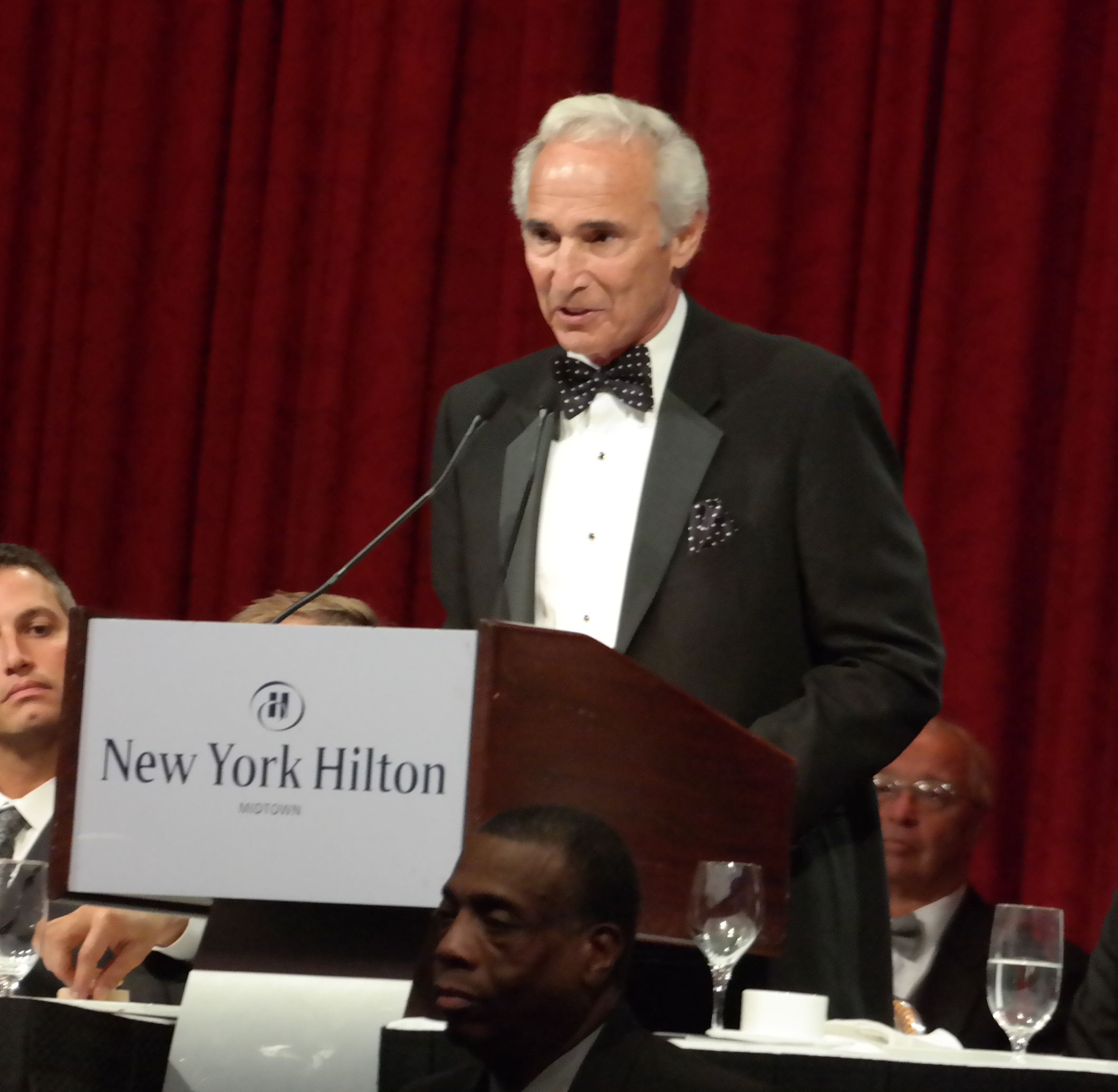 Dodgers icon Sandy Koufax addresses the crowd at the BBWAA Dinner.